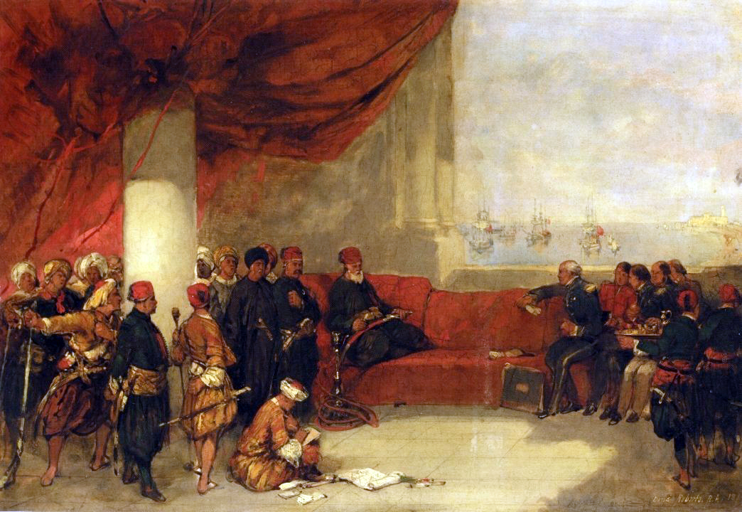 Interview with Mehmet Ali in his Palace at Alexandria